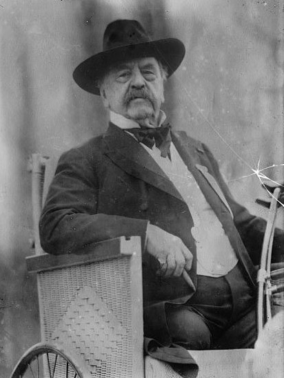 Daniel Sickles (1819-1914), American politician, Union general in the American Civil War, and diplomat